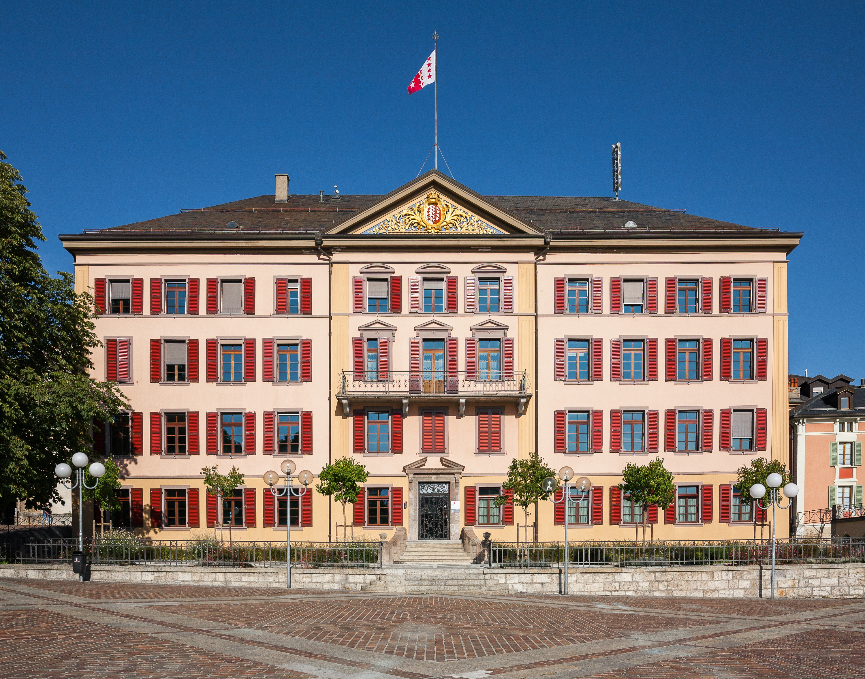 Palais du Gouvernement, Sion, Canton of Valais, Switzerland